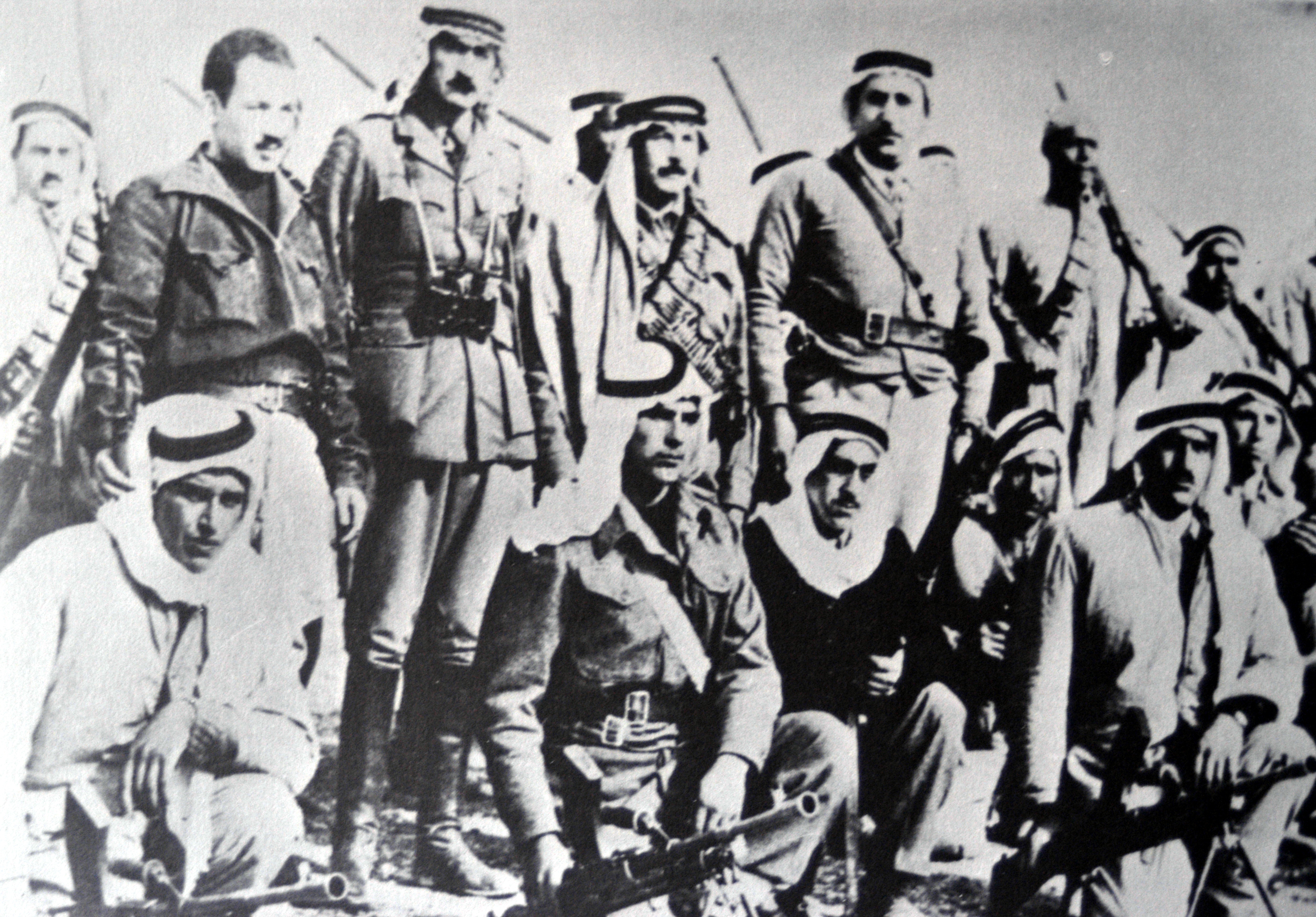 Early in January 1948 Abd al-Qadir al-Husseini returned to Palestine after an exile of ten years, and began organizing Palestinian resistance to the forcible partition of Palestine. He is seen here (standing center) with aides and Palestinian irregulars, Jerusalem district, February 1948.